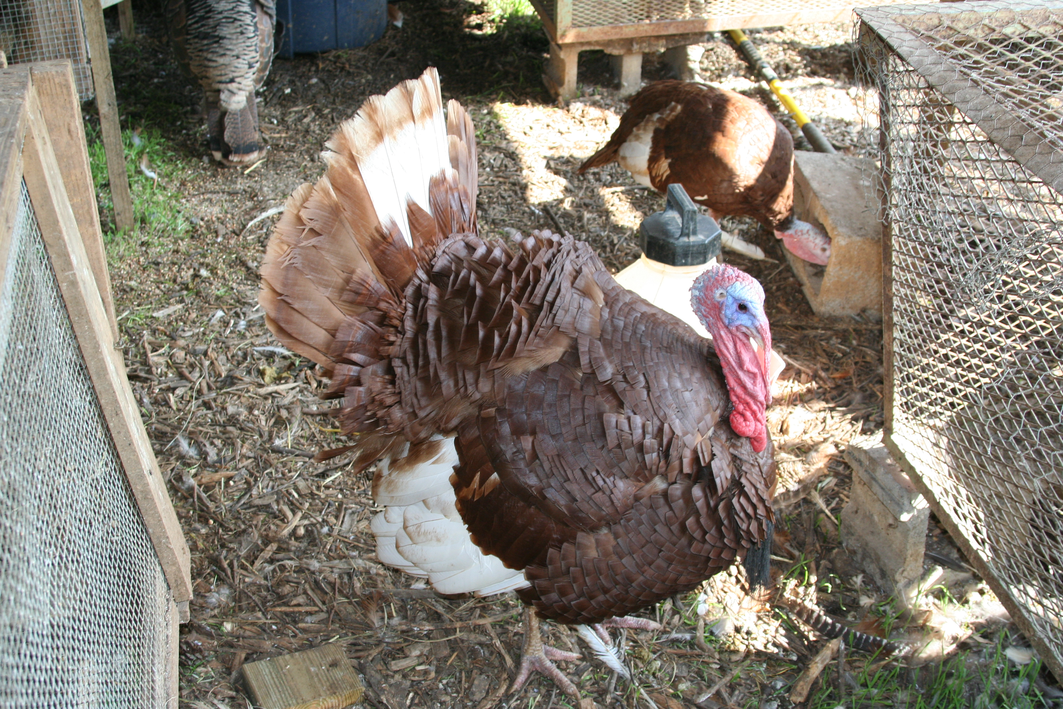 Bourbon Red turkeys